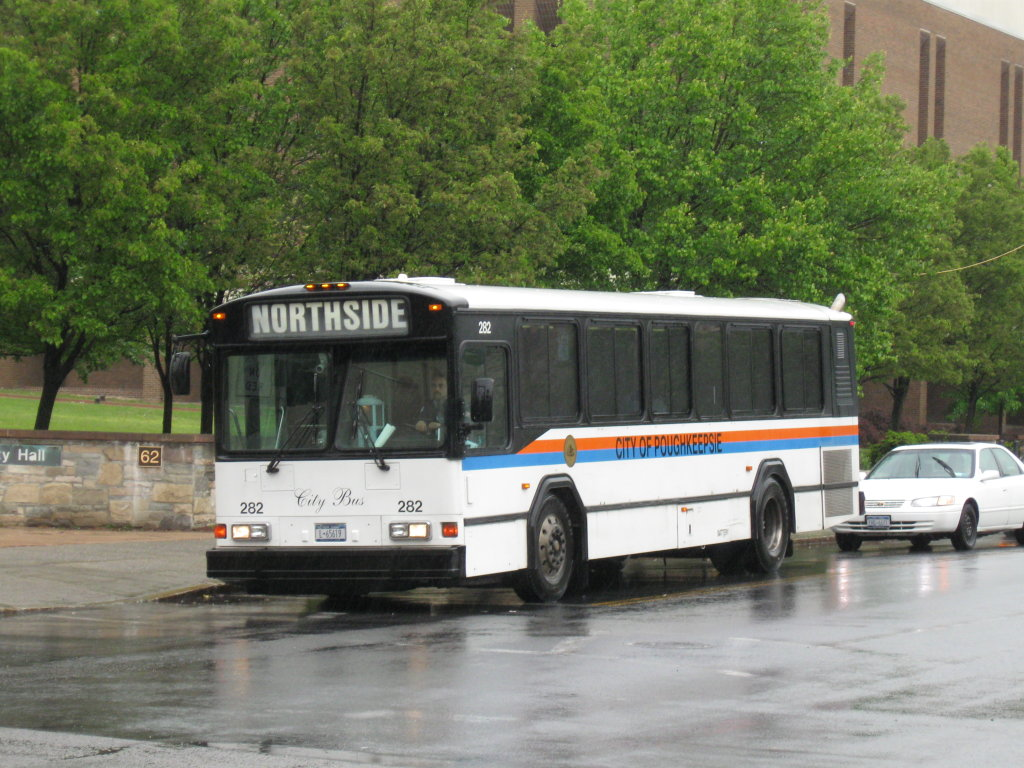 City of Poughkeepsie Transit #282 arrives near the Mid-Hudson Civic Center.